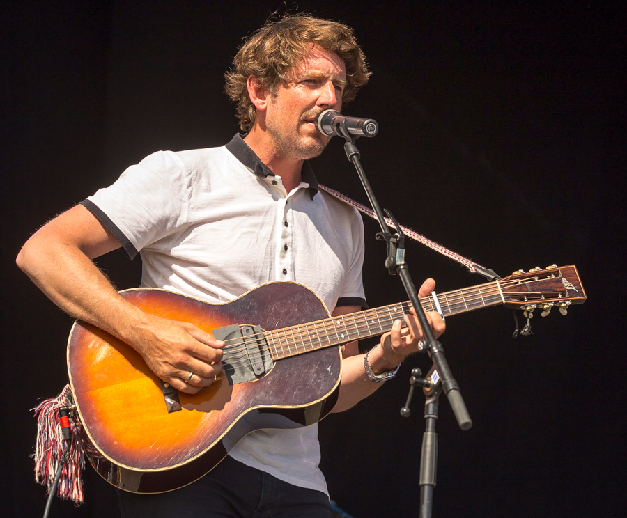 Odd Nordstoga at the minor stage during Stavernfestivalen in Stavern on 08. July 2016. Lineup:Odd Nordstoga (guitar / vocal)Unidentified (guitar)David Wallumrød (keyboard)Unidentified (drums)Unidentified (bass)